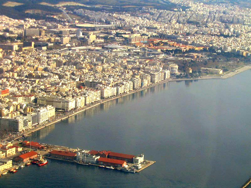 Aerial view of the central districts of Thessaloniki